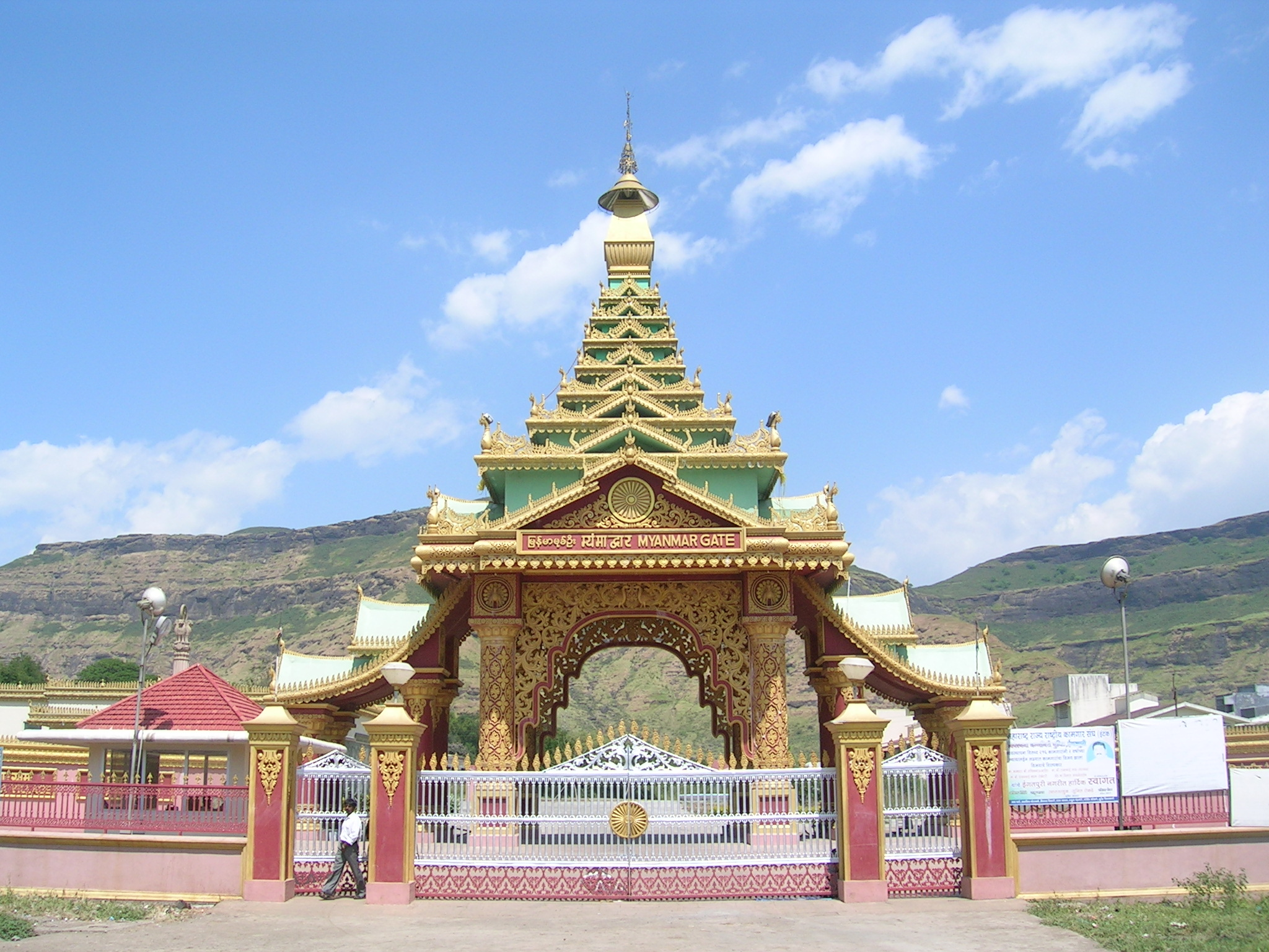 this is the pic of the Myanmar Gate, Dhamma Giri, Igatpuri, India.